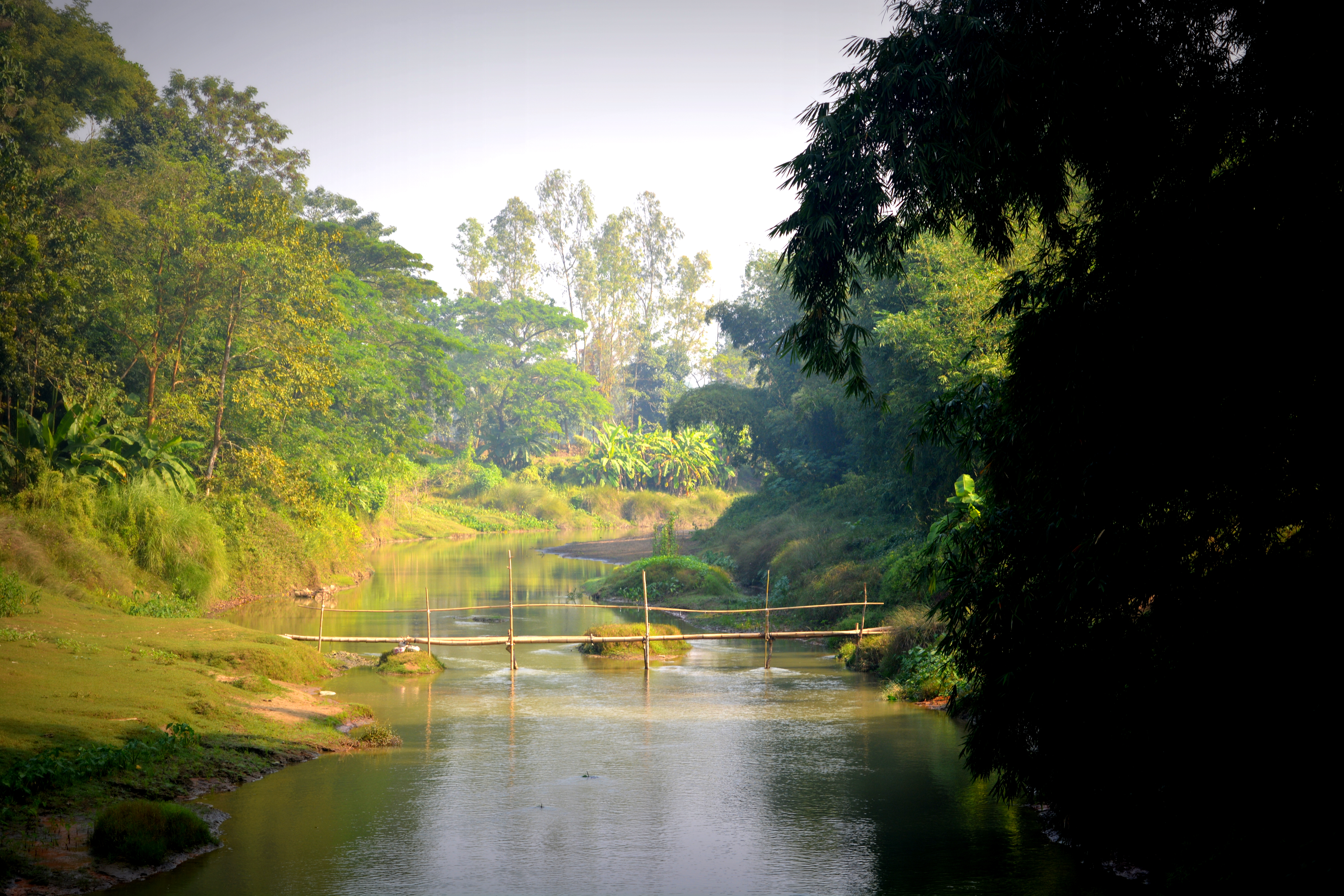 Place: North Amirabad, Lohagara, Chittagong